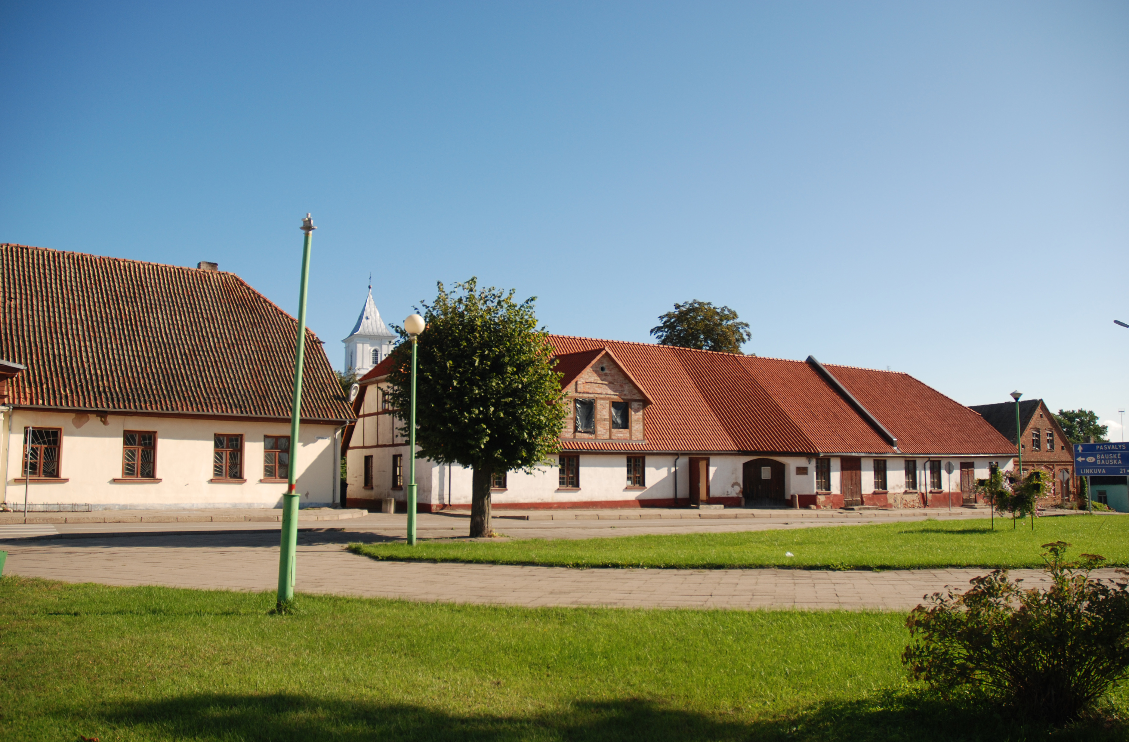 Žeimelis, central square, the Church of St. Peter and Paul visible in the background